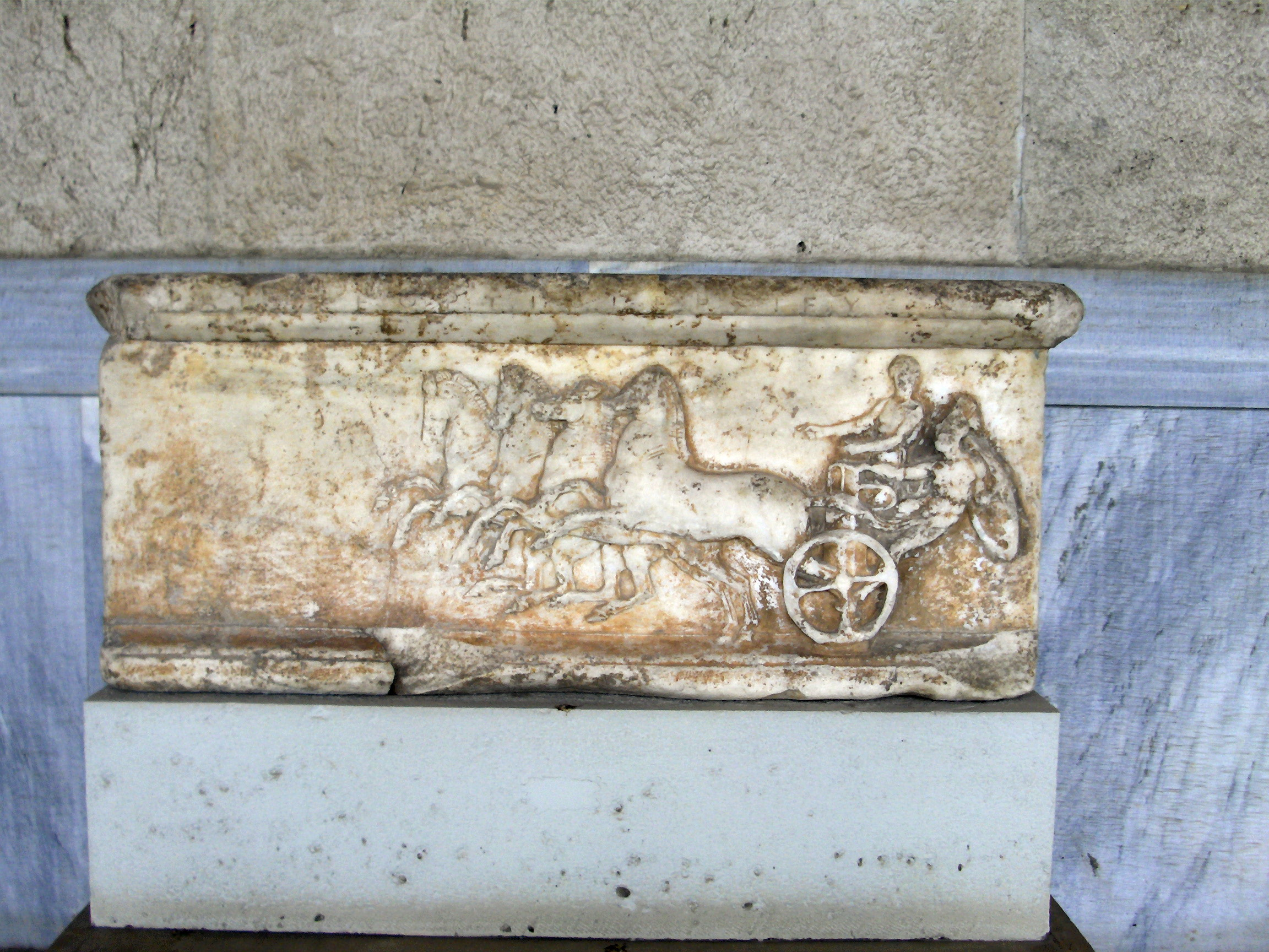 Victorious Apobates. A race in the Panathenaic Games in which an armed warrior lept on and off a moving chariot. 4th century BC. Exhibited along the portico of the Stoa of Attalus, which houses the Ancient Agora Museum in Athens.